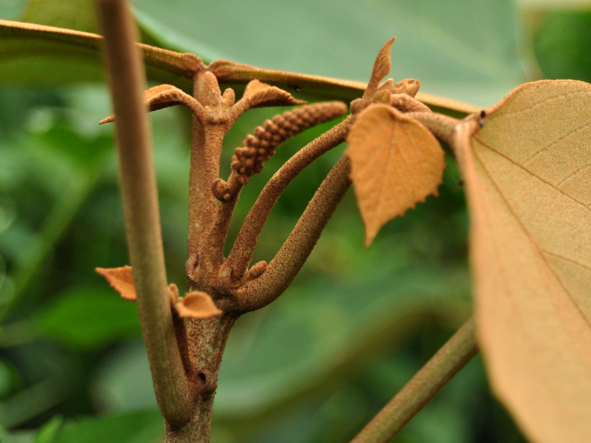 Mallotus macrostachyus; young leaves, stipules, and inflorescence bud. From Rokan Hilir, Riau, Indonesia.